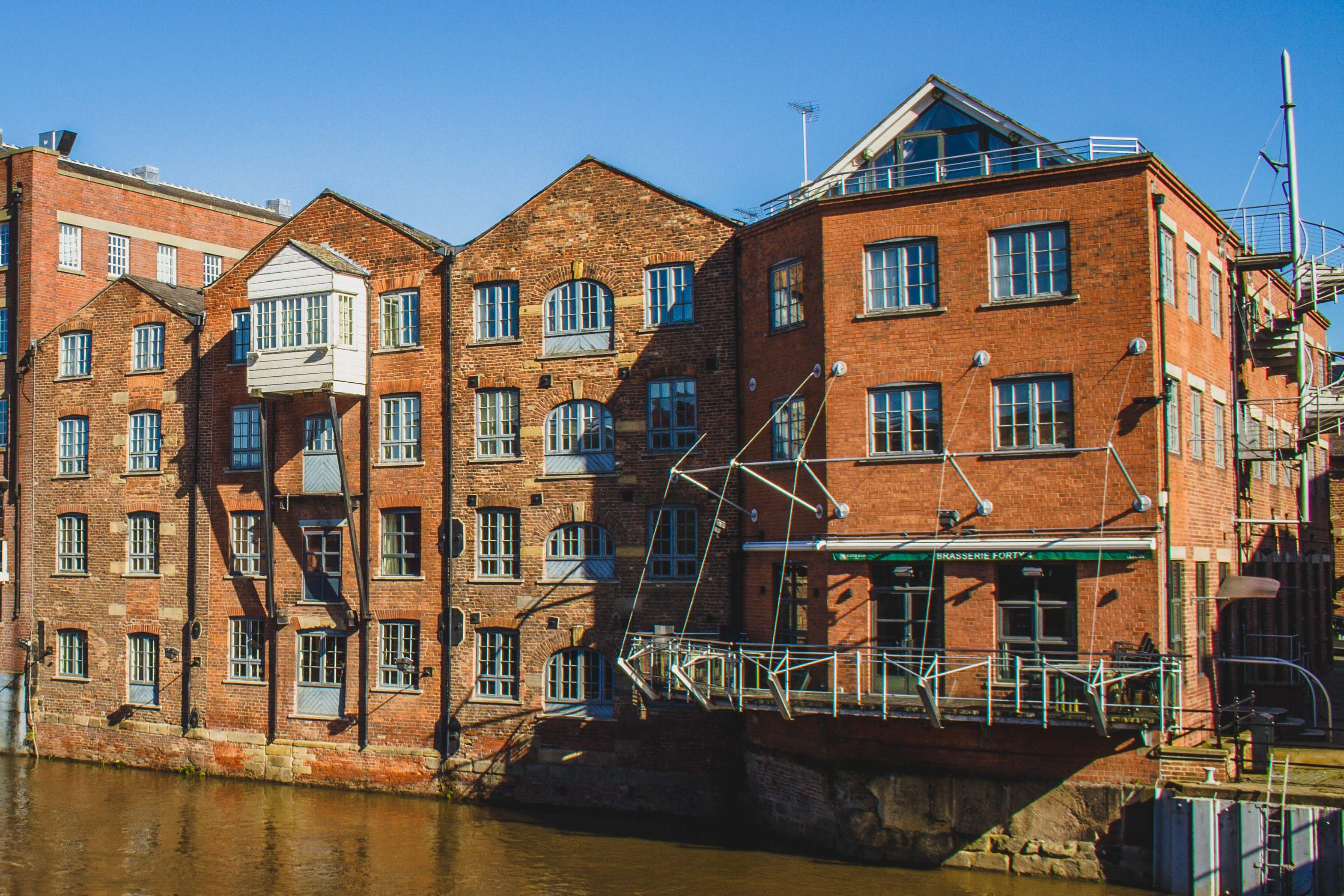 A photo of the back of 42 The Calls Hotel, Leeds, from across the River Aire